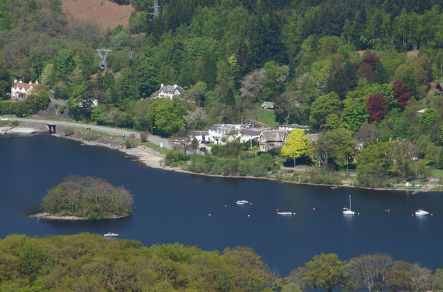 Neish Island on Loch Earn from Bioran Beagg This small island was said to be inhabited by wild clansmen (the Neishes) and their families hundreds of years ago : ostensibly, it provided a safe refuge. But, allegedly, one night their enemies (the Macnabs) carried a boat over the hills, north of the loch, and mounted a surprise attack. Only one child survived the murderous onslaught by hiding and swimming ashore. The island, like many in Scottish lochs, appears to be a "crannog", i.e. man made rather than natural. In these more civilised times, the nearest threat is from the Four Seasons Hotel, seen on the shore beyond the island!